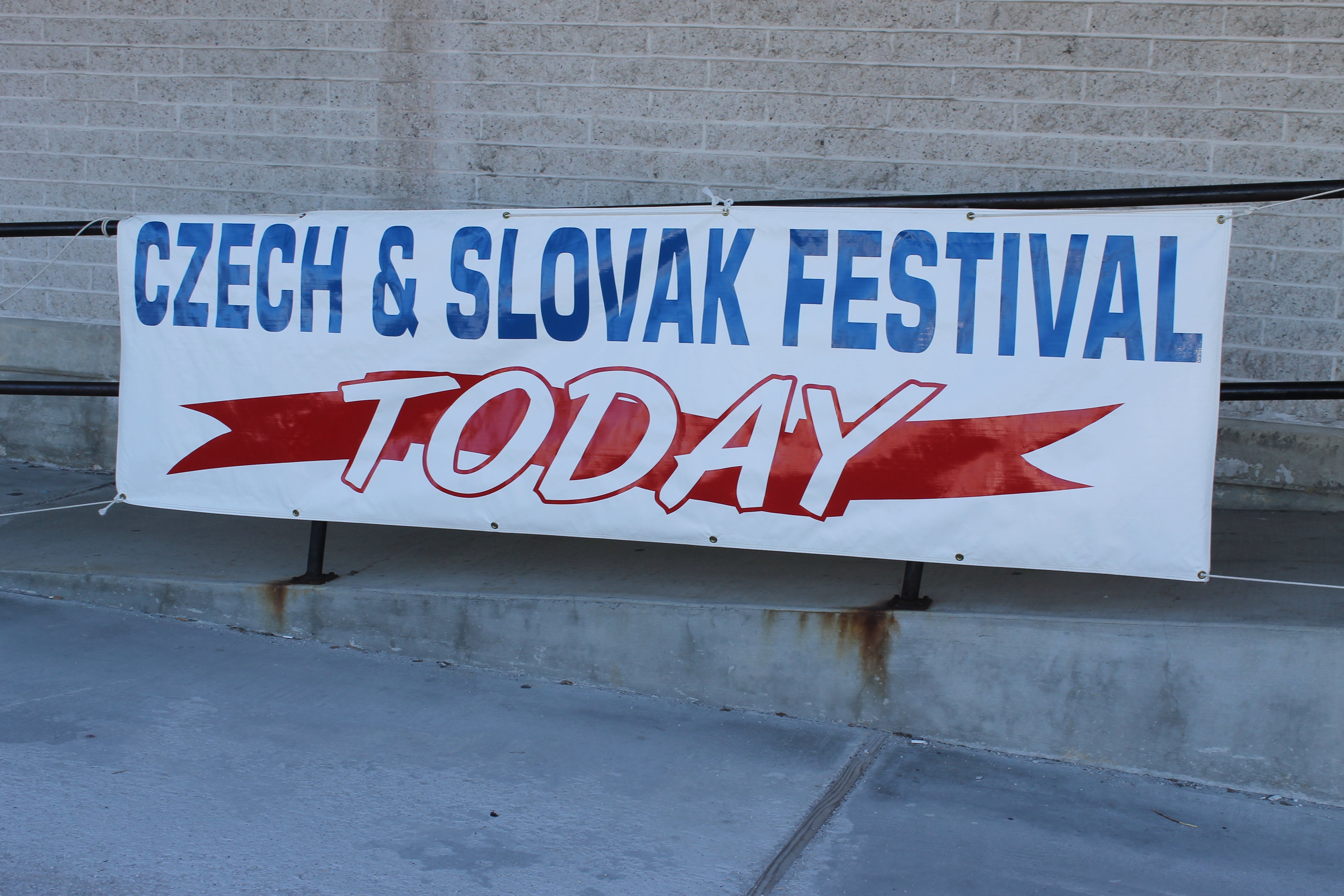 Sign for the twenty-eighth annual Czech and Slovak Heritage Festival, Parkville, Maryland.